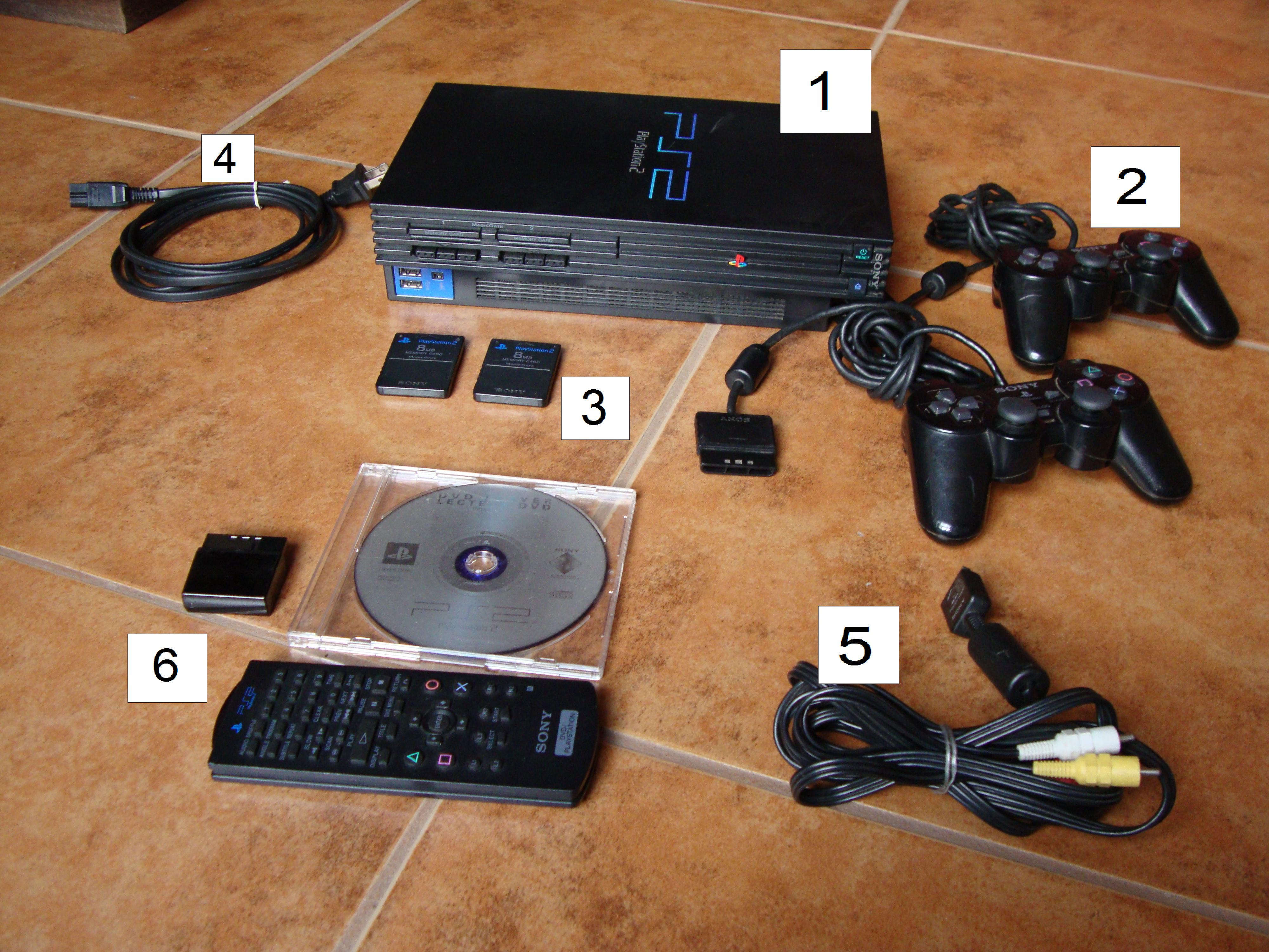 Parts of Sony's PlayStation 2 console.